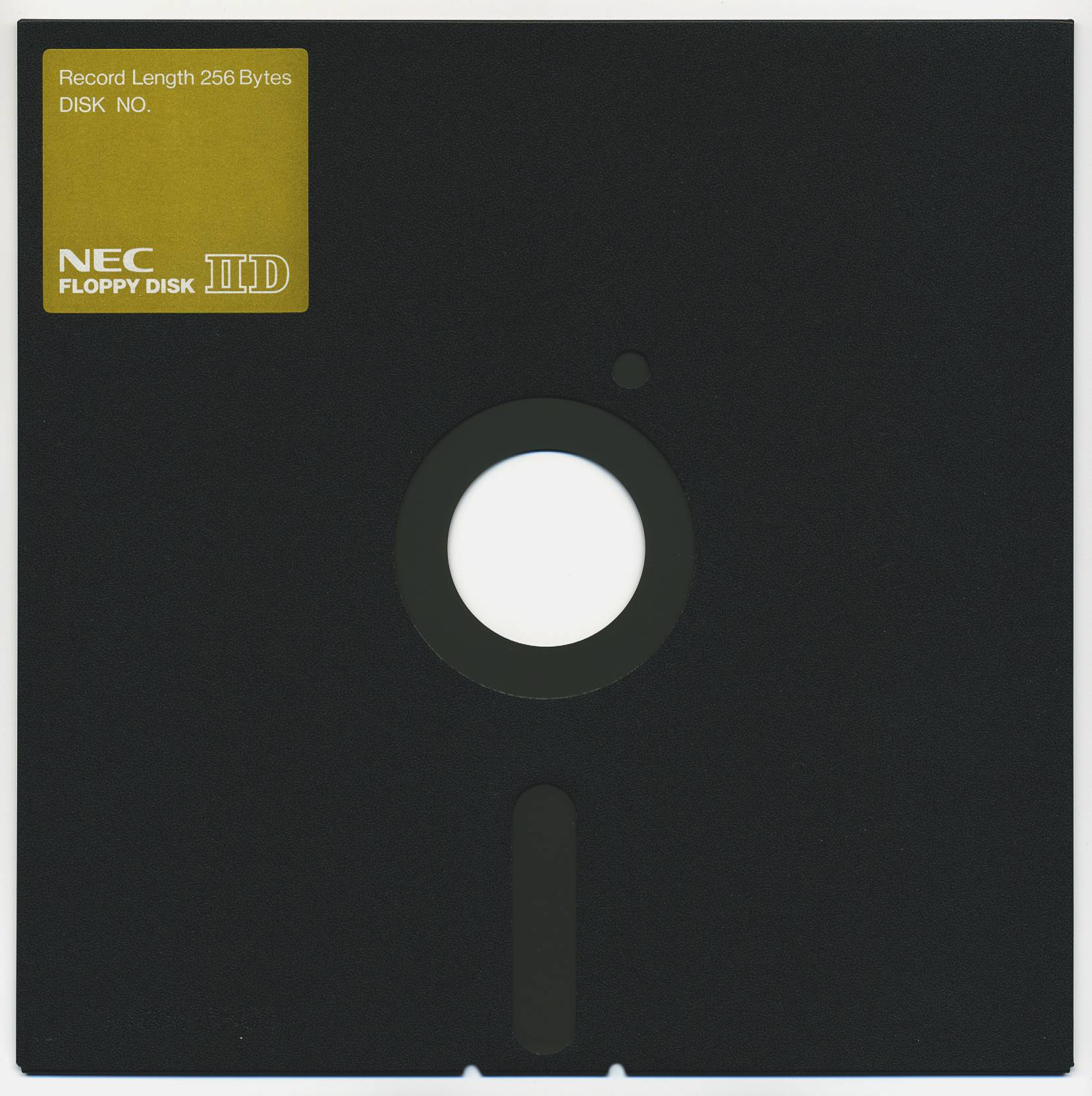 NEC EF-9021, 8-inch floppy disk